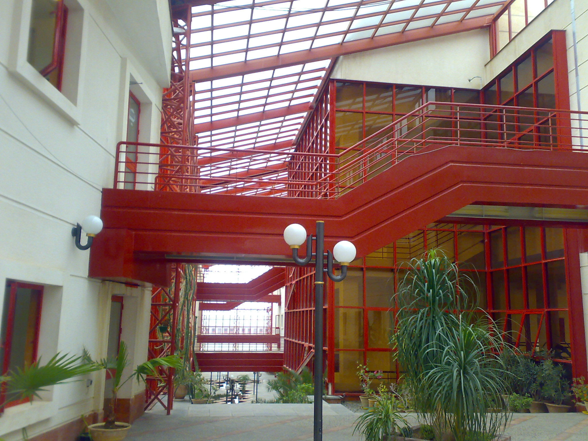 Institute for Advanced Studies in Basic Sciences in Zanjan(IASBS) ,مرکز تحصیلات تکمیلی در علوم پایه